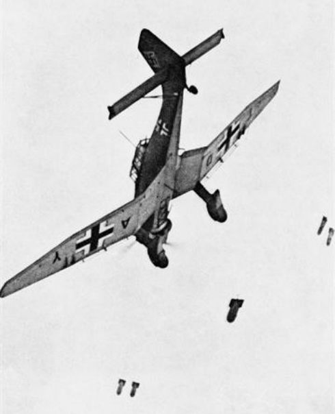 A German Junkers Ju 87B Stuka (TD+AY) dropping bombs. This photo shows an aircraft assigned to the Sturzkampffliegerschule 1 training unit.